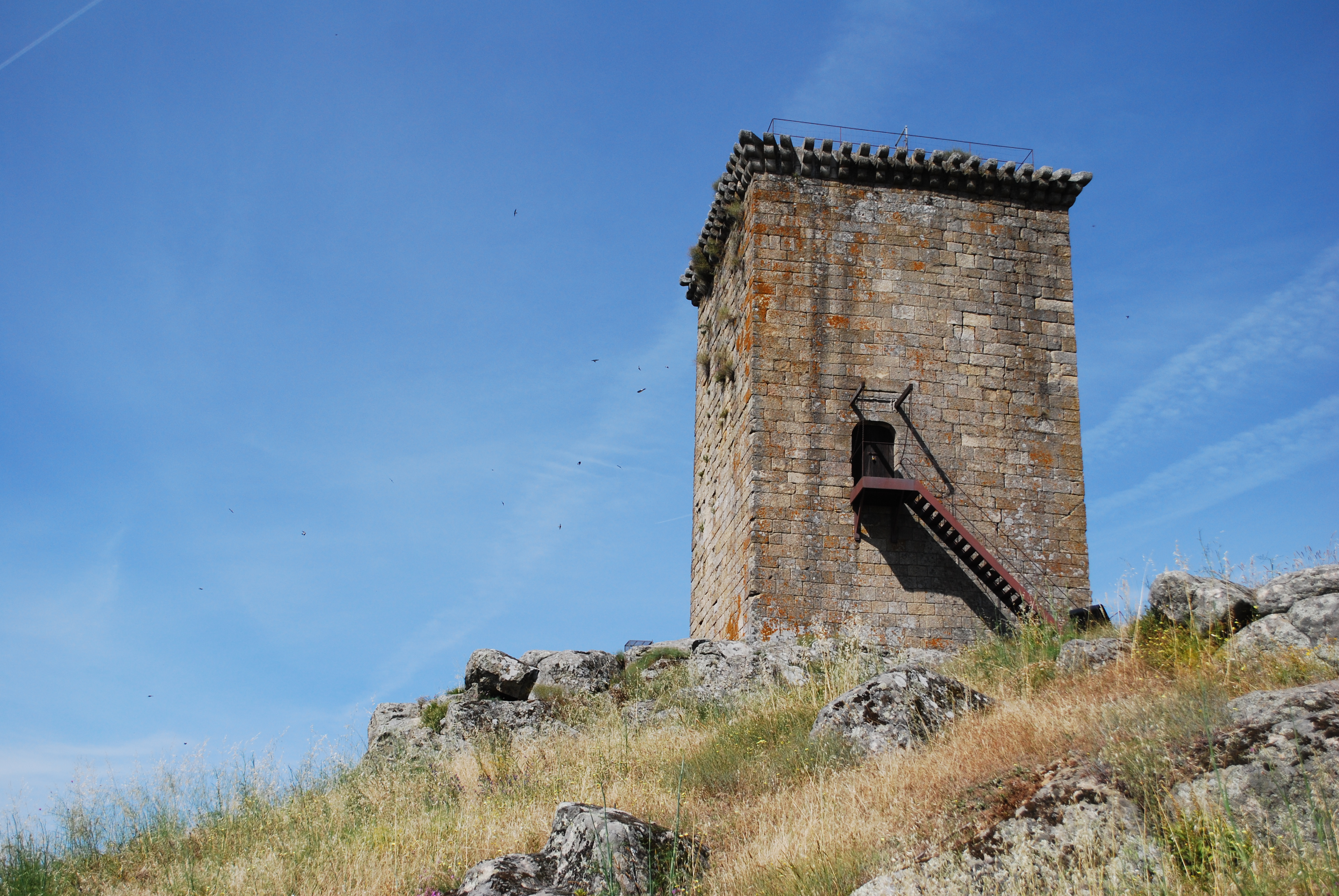 This file was uploaded for Wiki Loves Monuments in Portugal with the unique identifier 73056.